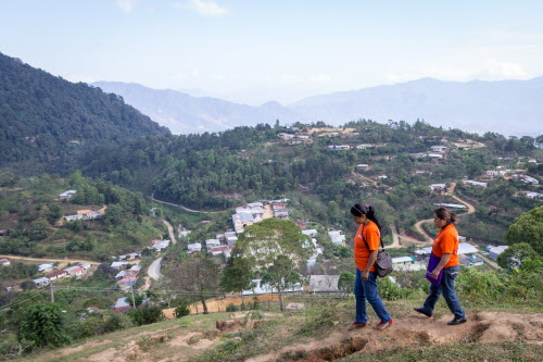 Community Health Workers, Yadira Roblero and Magdalena Gutiérrez, walk down the mountain side to complete their home visits in Laguna Del Cofre, Chiapas, Mexico on March 11, 2016.